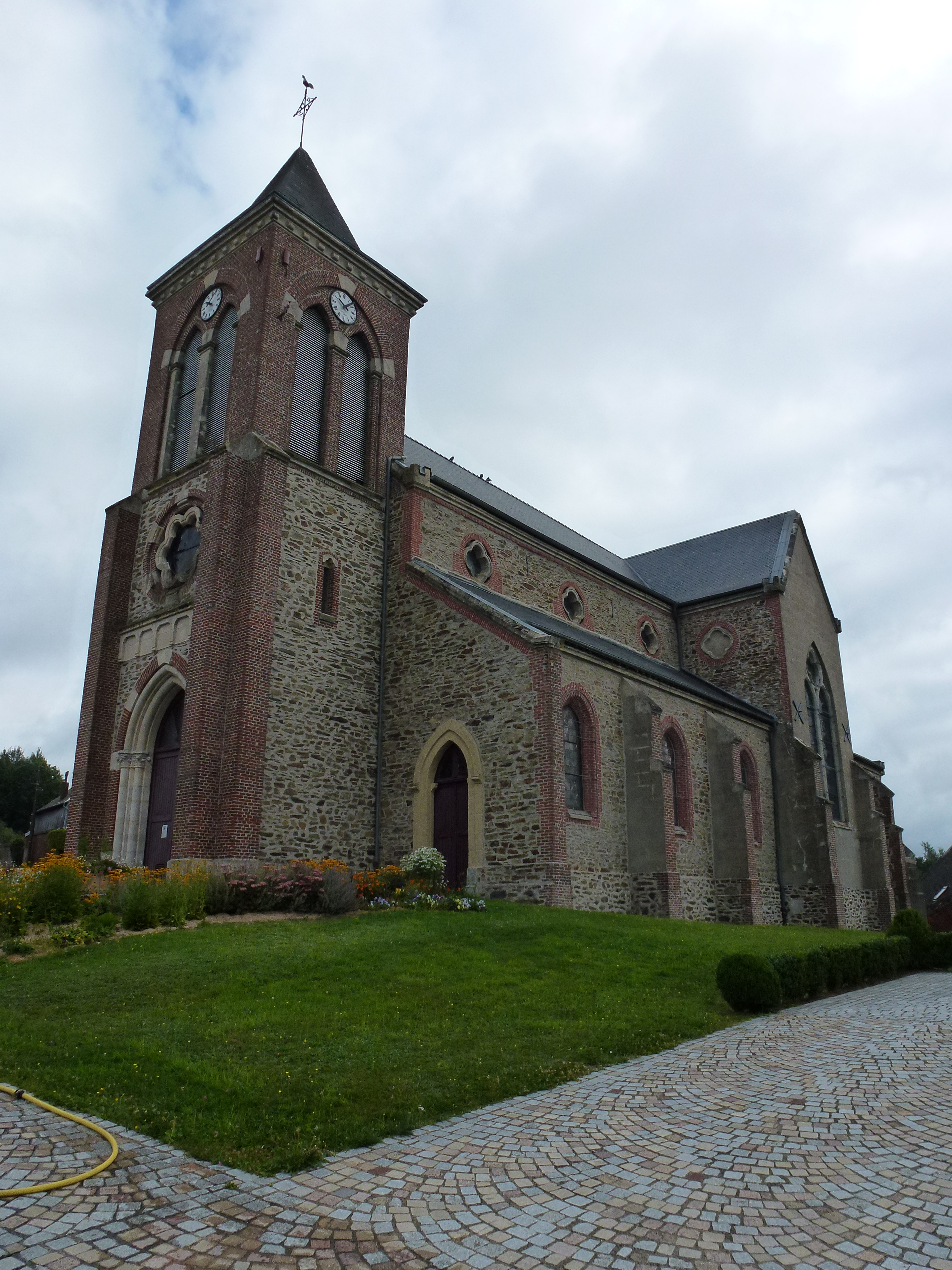 La Neuville-aux-Joûtes (Ardennes) église